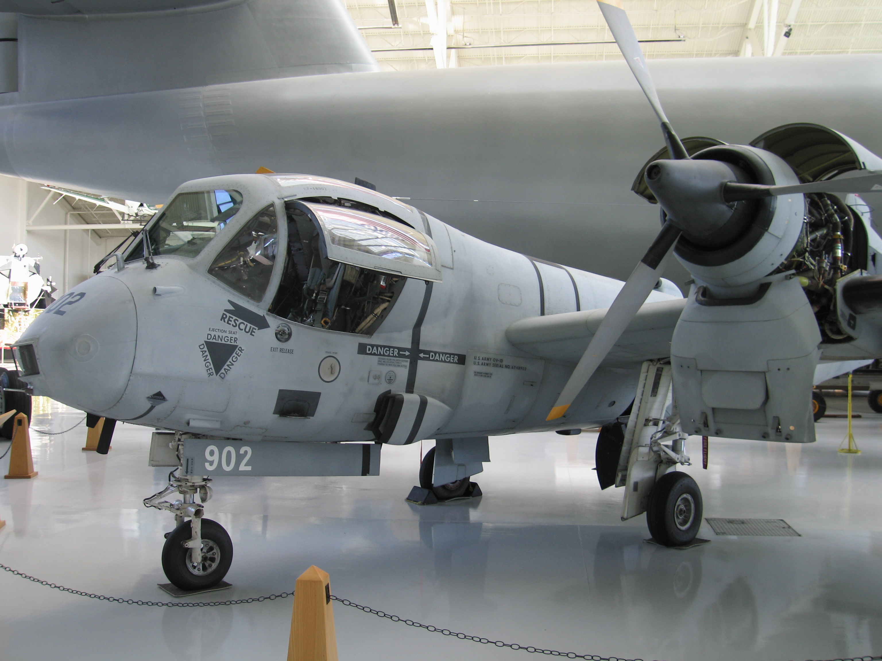 Photograph of the Grumman OV-1D Mohawk on display at the Evergreen Aviation Museum in McMinnville, Oregon. Taken on 19 August, 2006 by Parodygm 17:14, 26 March 2007 (UTC)